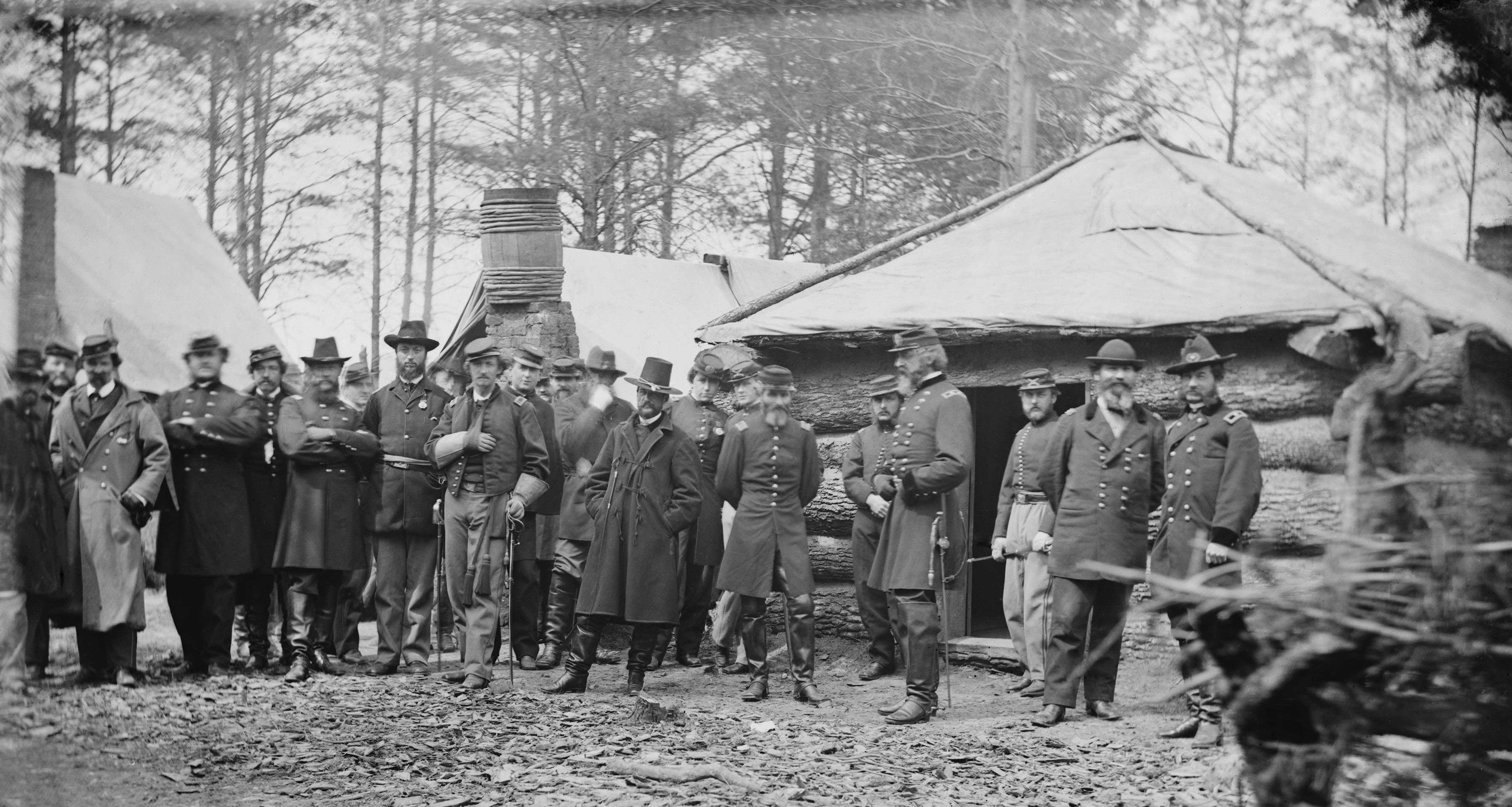 Brandy Station, Va. Gens. George Meade, John Sedgwick, and Robert O. Tyler with staff officers at Horse Artillery headquarters.